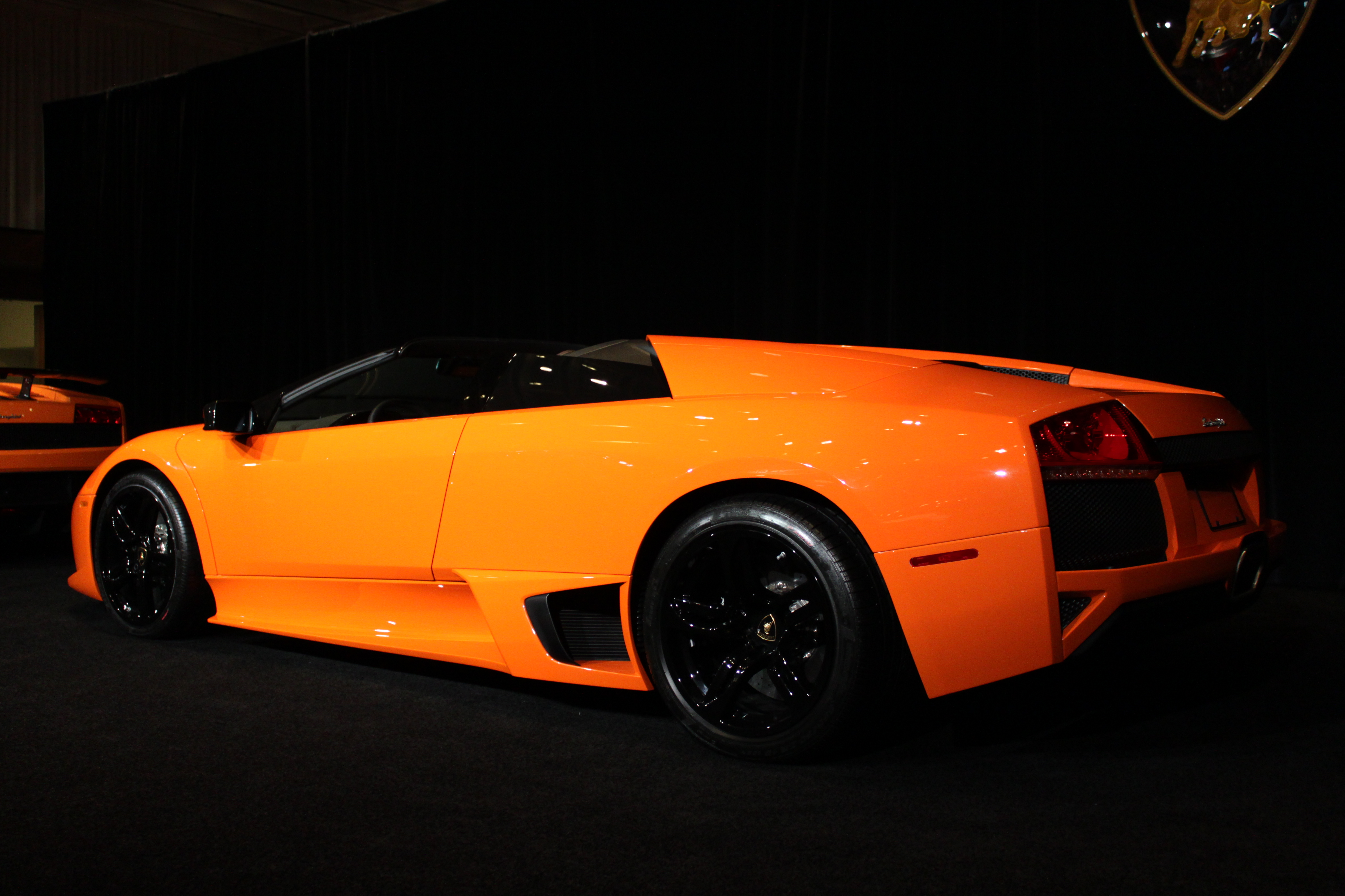 I really wish they put this car in a better position. It's a very nice thing to look at but they stuck it right behind the Gallardo Performate and there wasn't much room to get another angle.